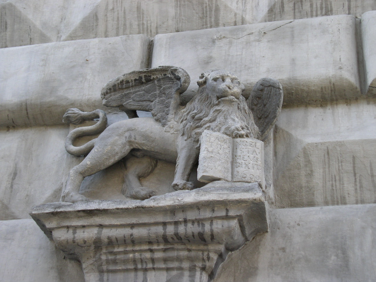 Market square, the Venetian House, the coat of Venice - the Lion of St. Mark. Lviv, Ukraine